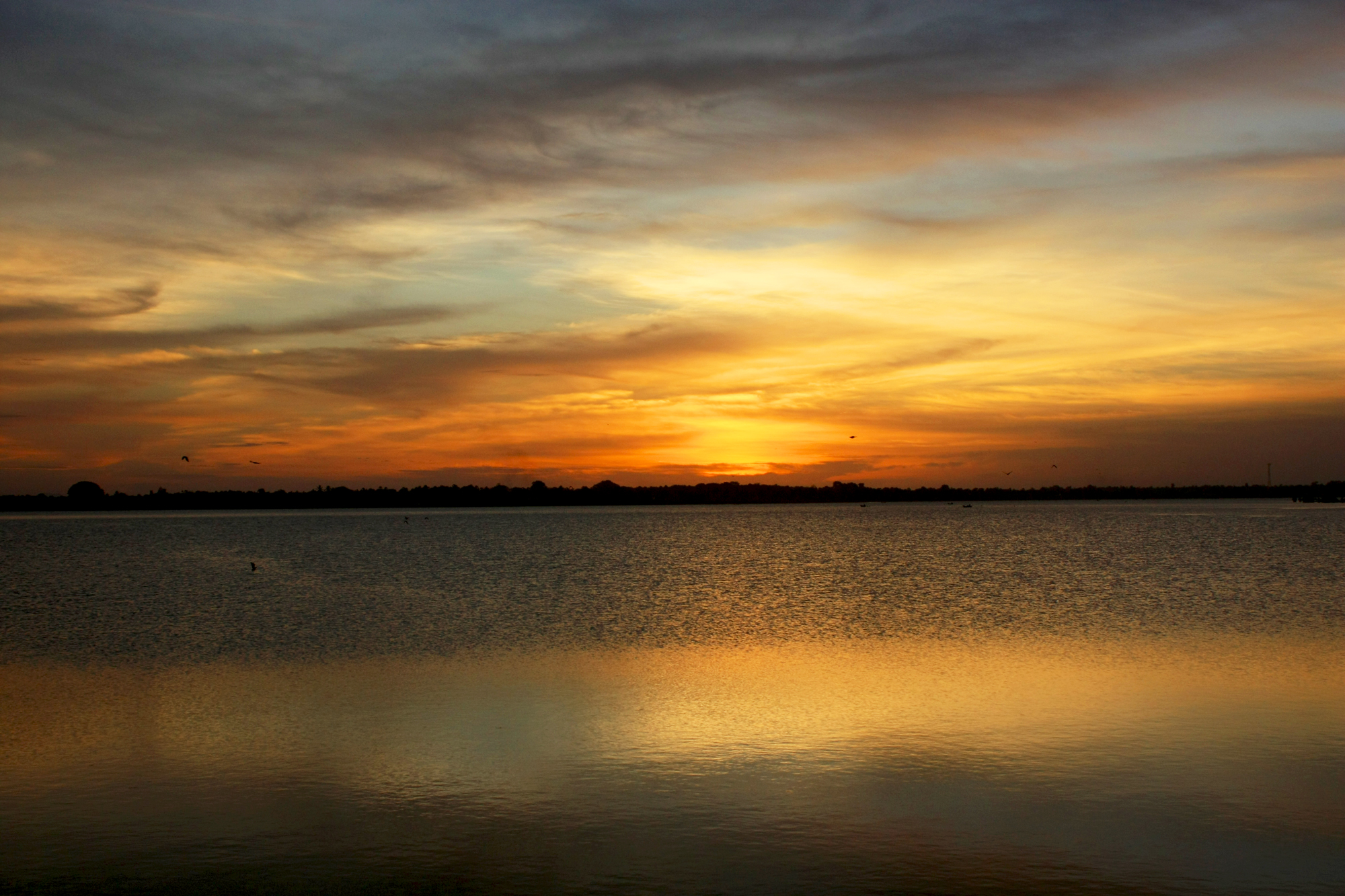 Sunset seen from Batticaloa New Bridge, Sri Lanka